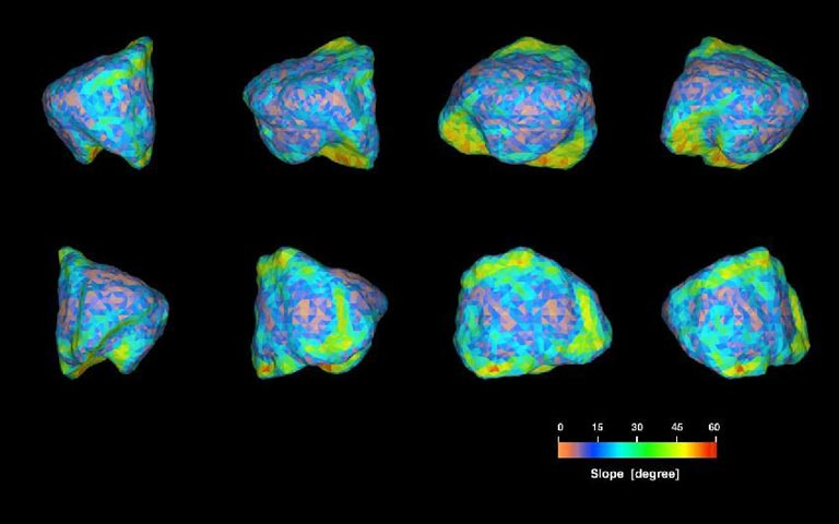 Radar astronomical model of asteroid Golevka.